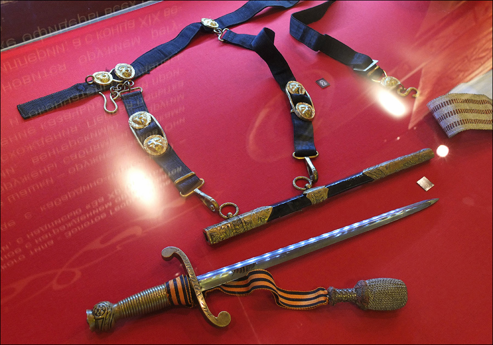 Admiral Koerber Ludwig